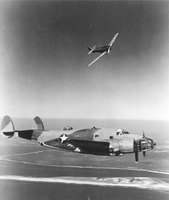 A U.S. Army Air Force student pilot in an North America T-6 Texan trainer "attacks" a USAAF Lockheed B-34 during gunnery training, circa 1942/43.